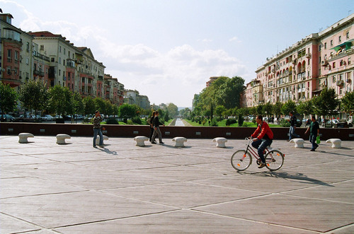 ETC Tirana